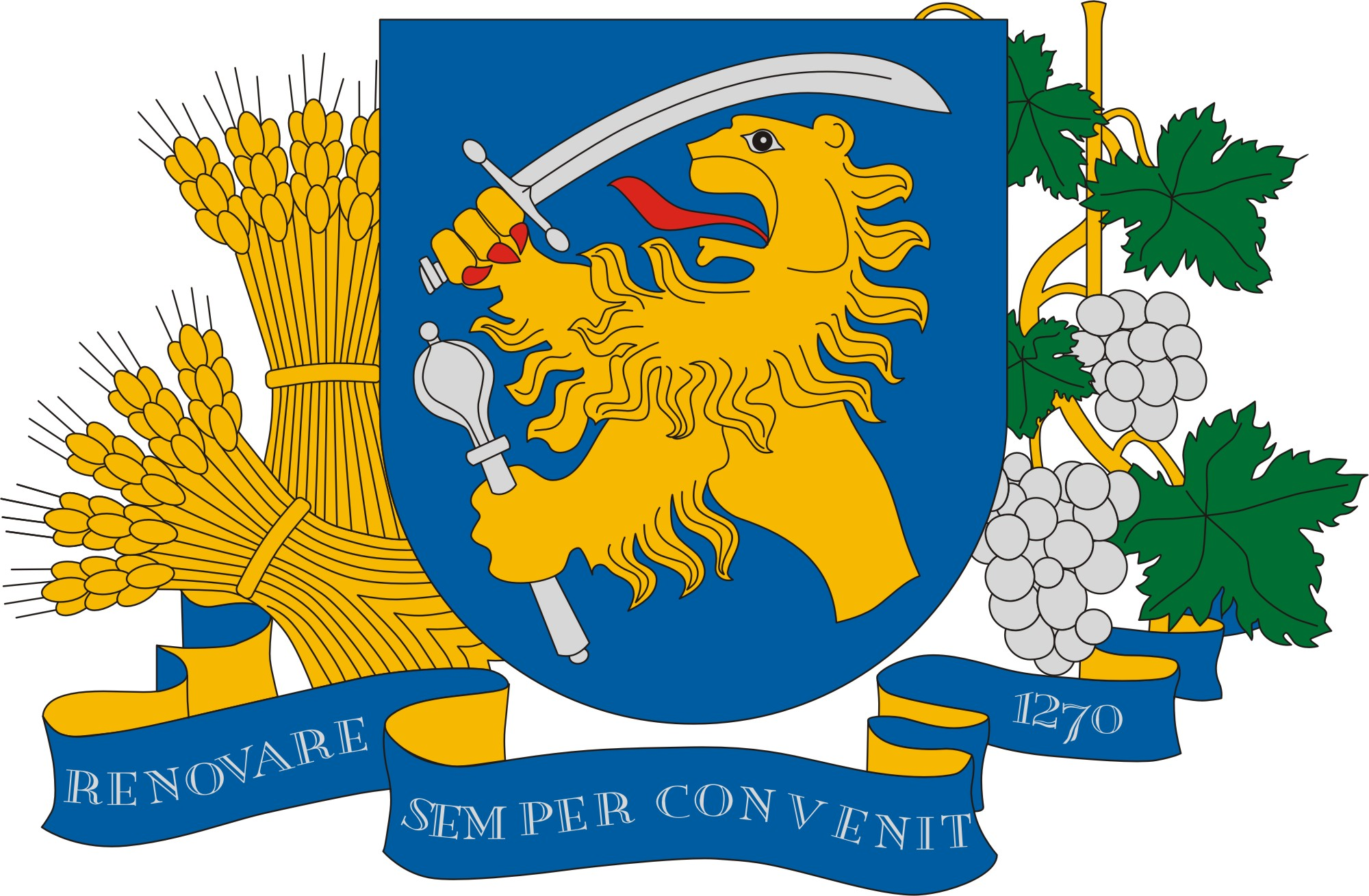 Coat of arms of Tabajd, Hungary